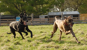 Great Danes Running